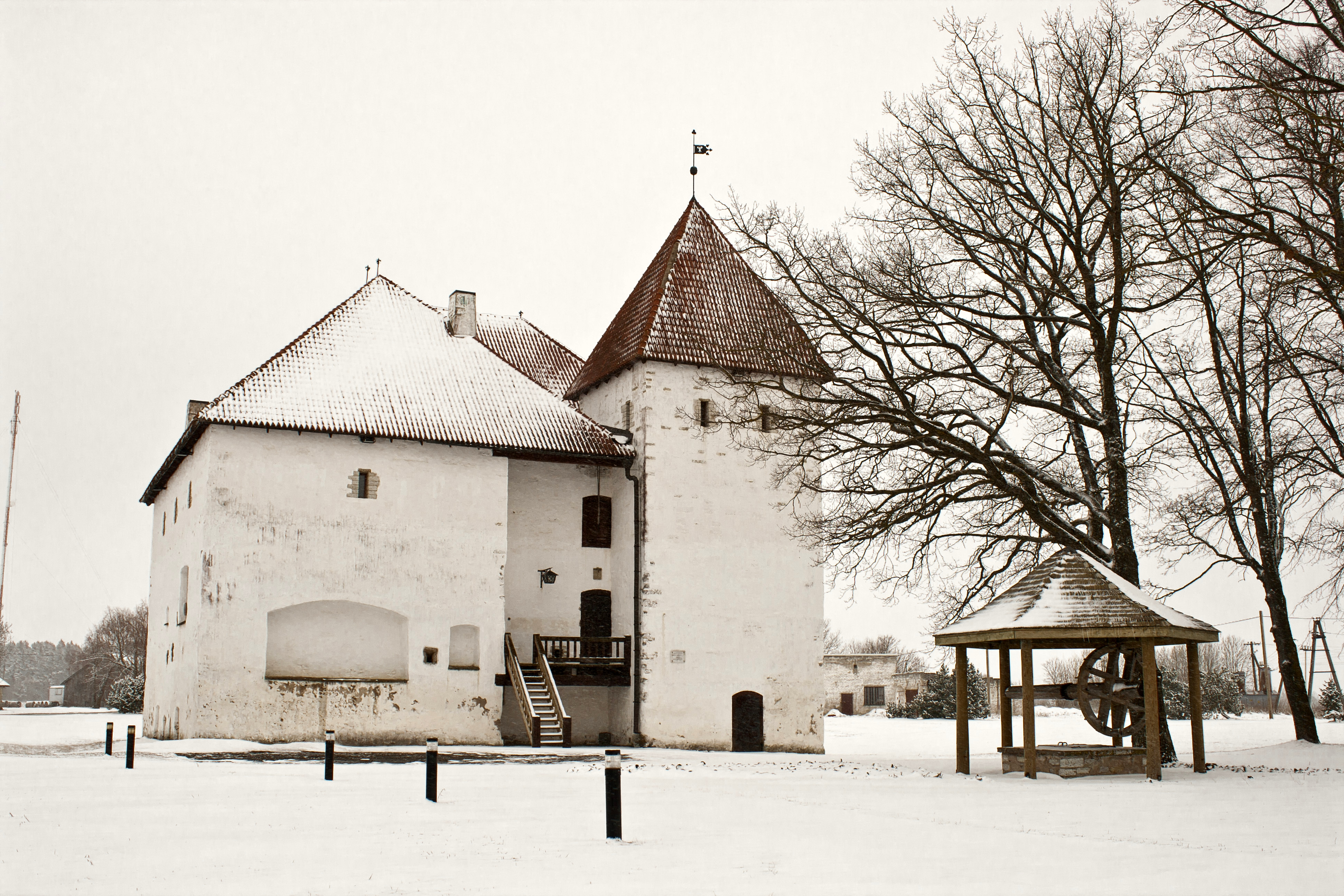 Purtse Castle